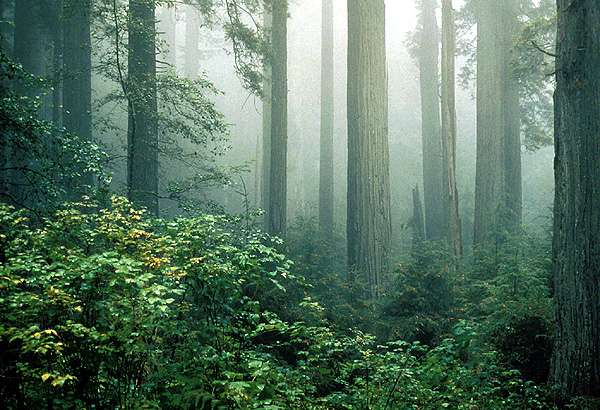 Sequoia sempervirens and Vaccinium ovatum in fog, in Redwood National Park, California.